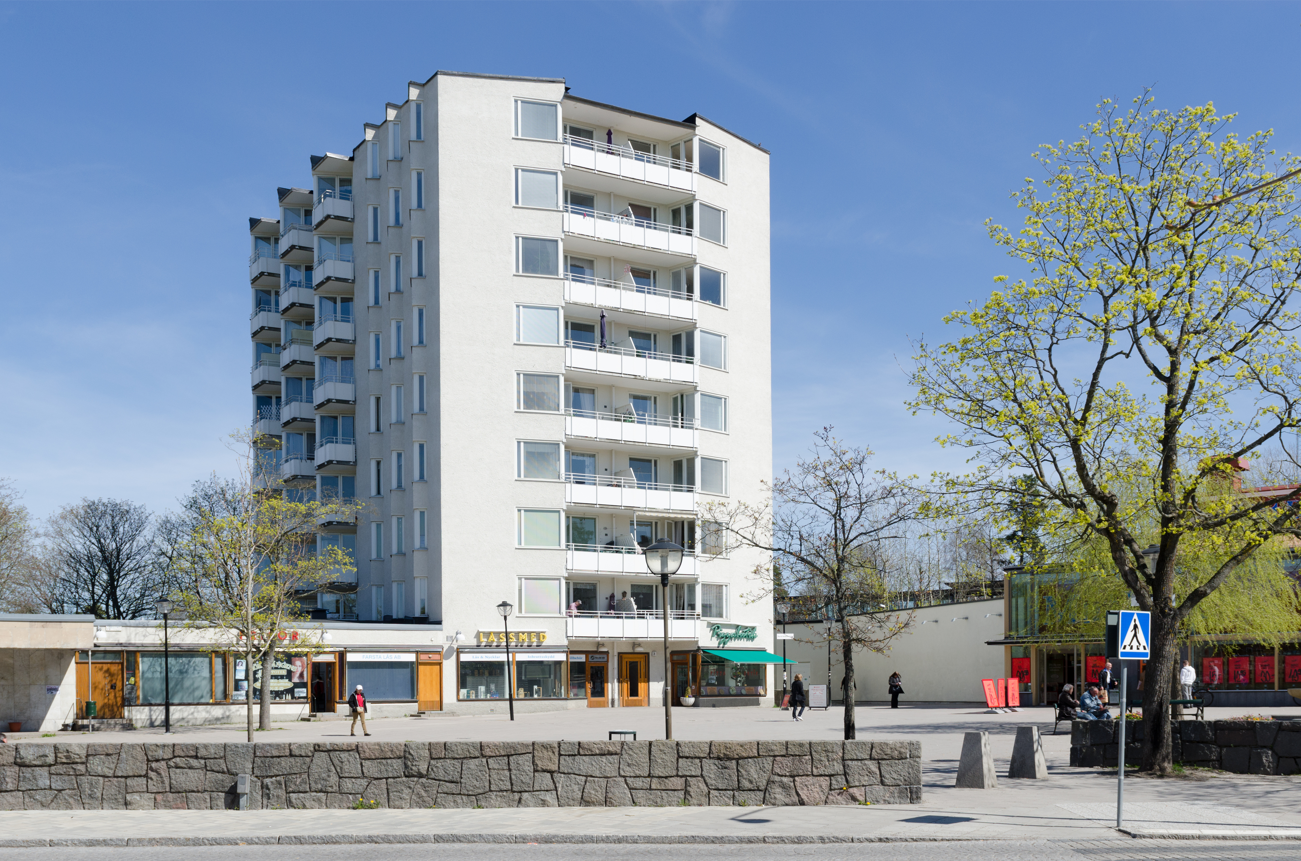 Hökarängen Centre. Completed in 1950. Architect David Helldén. Hökarängen Centre includes the first pedestrianised shopping street in Sweden.